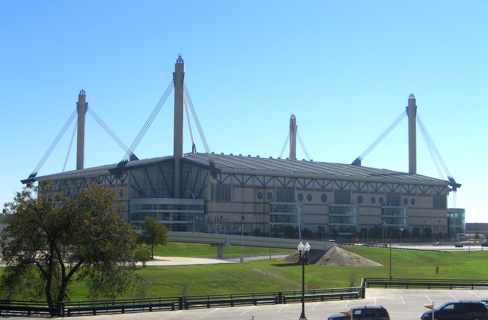 Photo by Nick Juhasz.